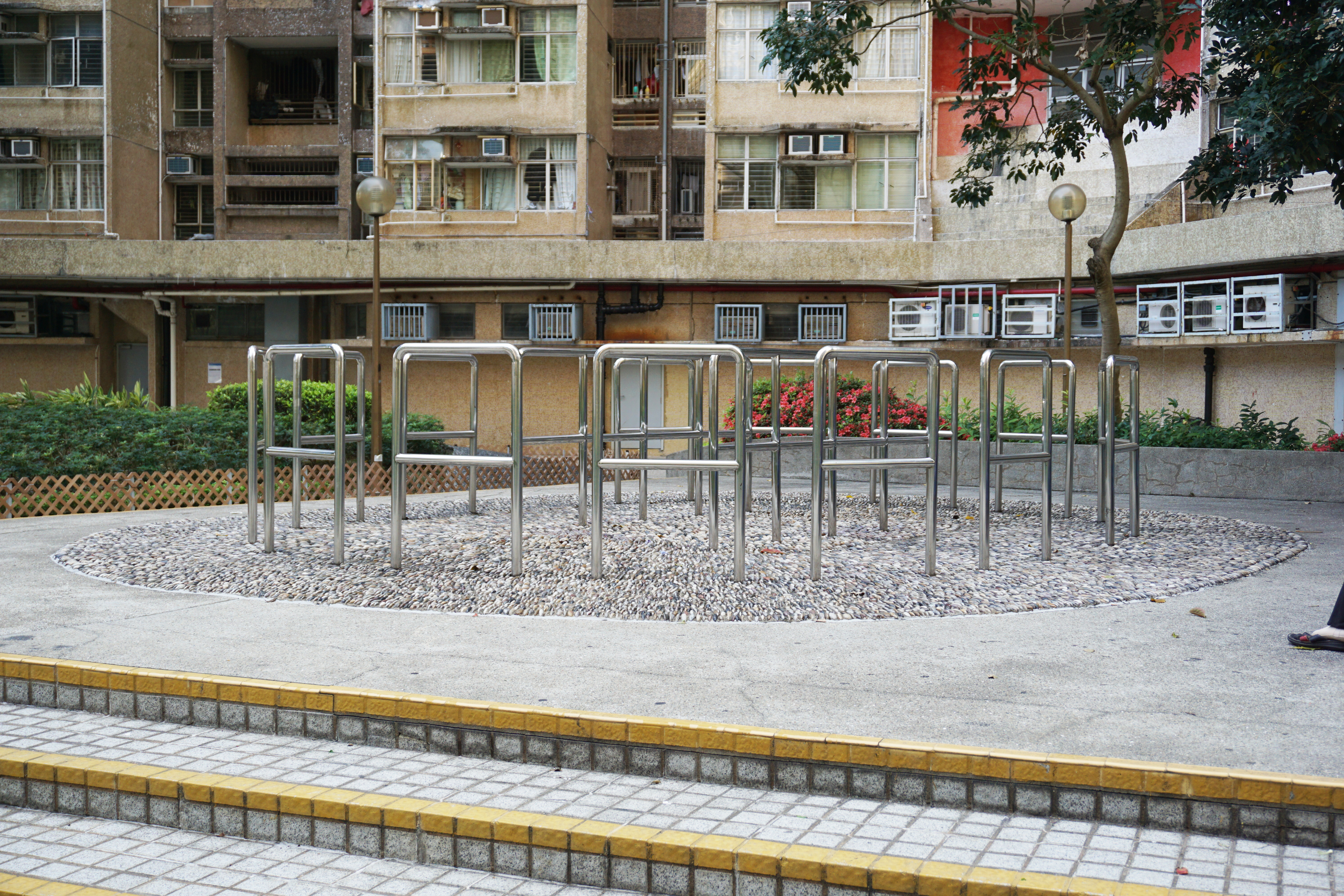 Tai Wo Estate in Tai Po, Hong Kong.